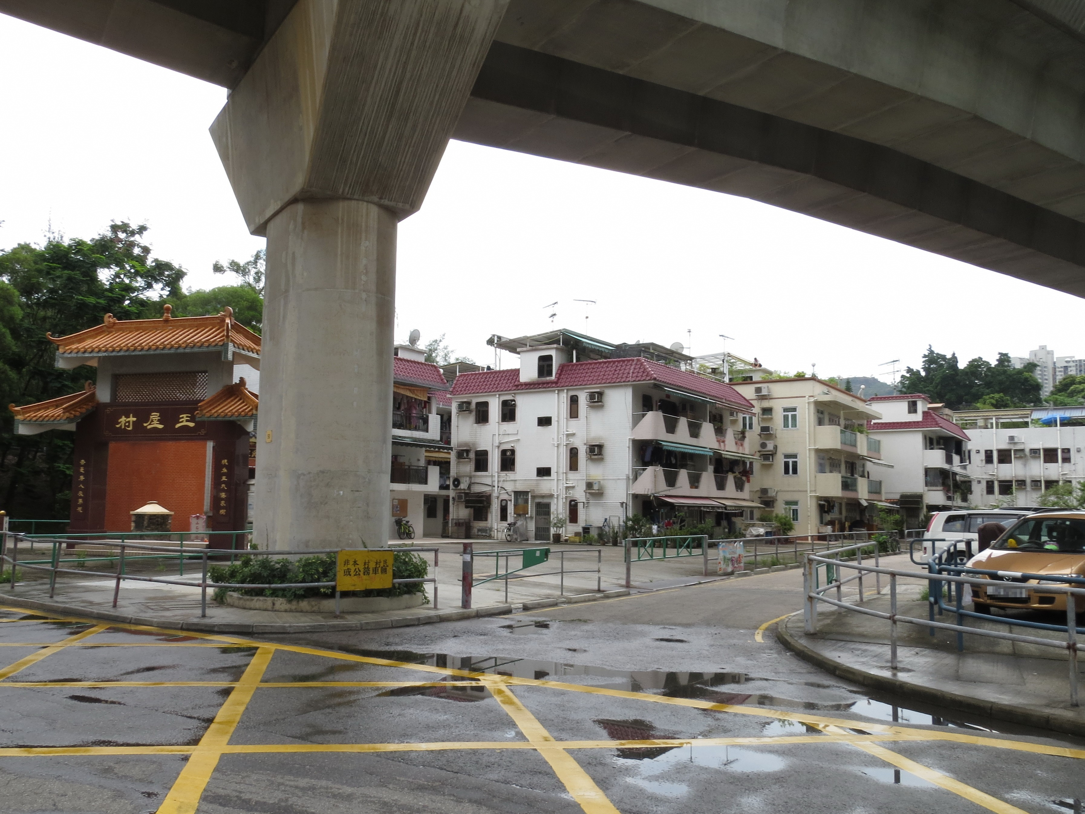 Wong Uk Village, Sha Tin, New Territories, Hong Kong.